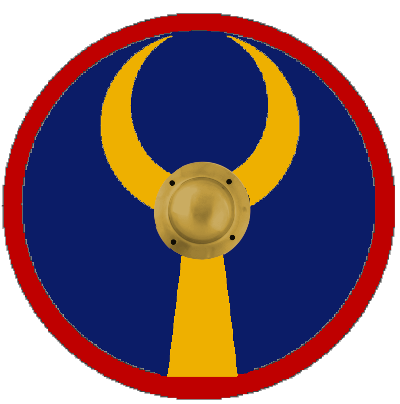 Shield pattern o.t. Brachiati seniores, the second-most senior of all the auxilia palatina units in the Magister Peditum's Italian command.